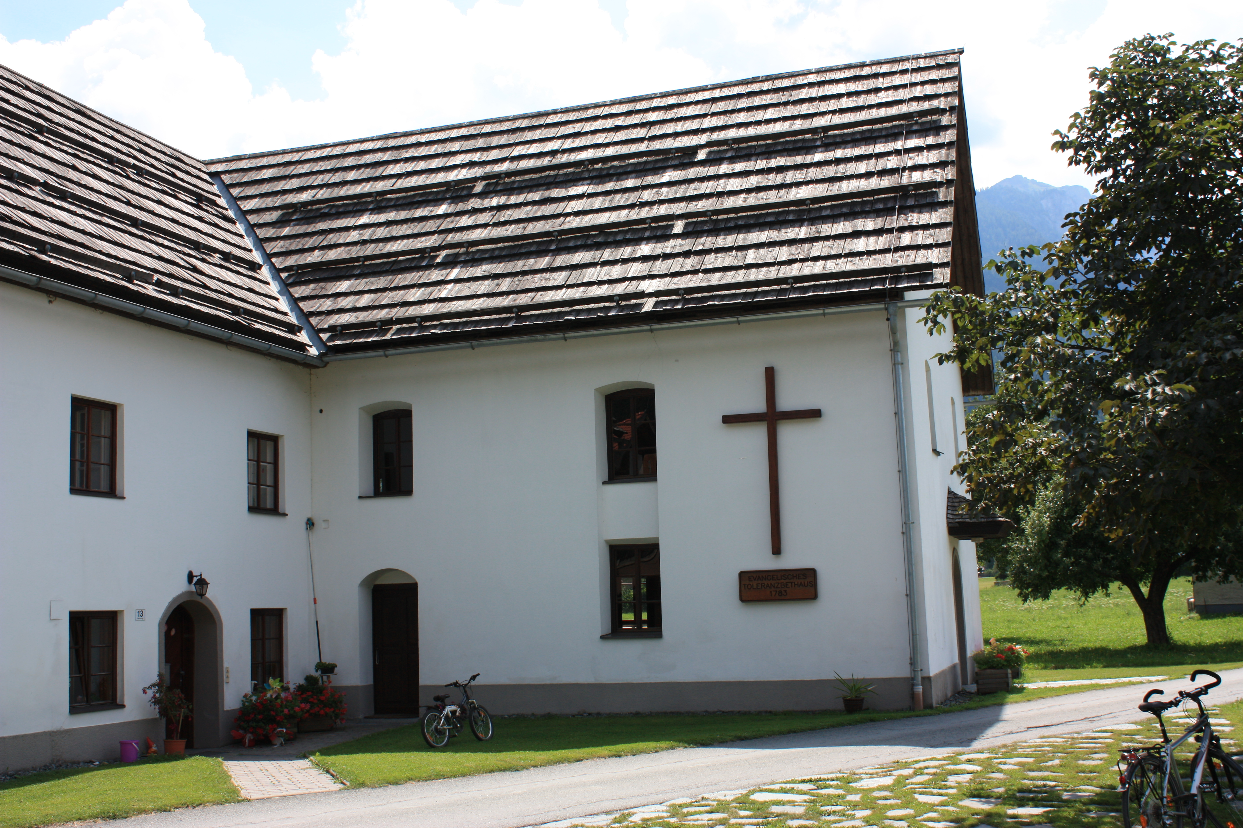 Tolerance worship-house Locality: Watsching Community:Hermagor